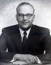 Elford Albin Cederberg, US Representative from Michigan